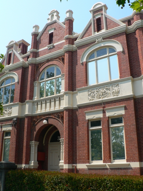 Christian Brothers' College. St Kilda, Victoria. Dandenong Road buildings.